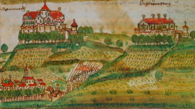 Burg_Scheuerberg bei Neckarsulm vor der Zerstörung im Bauernkrieg 1525.jpg